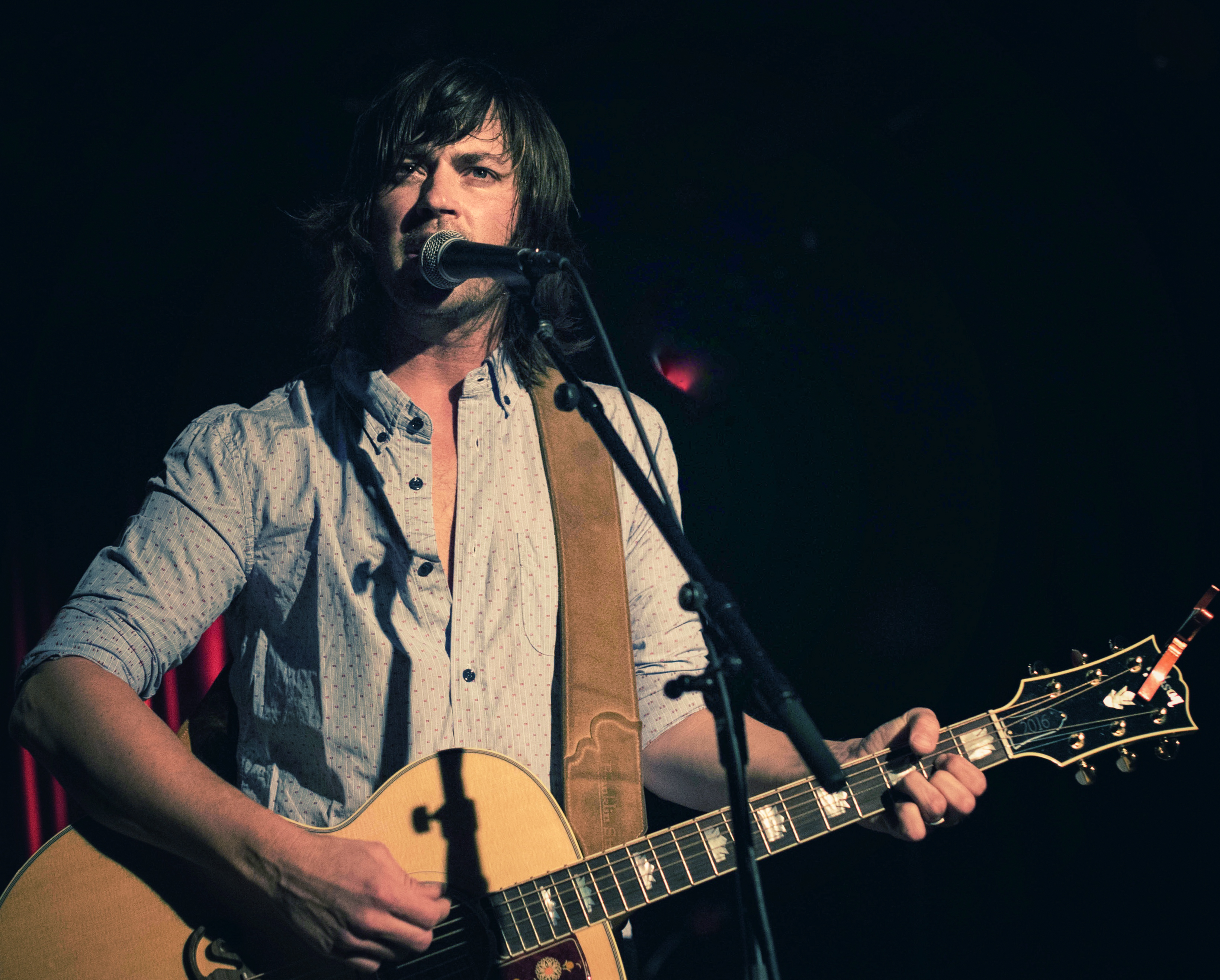 Rhett Miller performs at the Bell House in Brooklyn, NY (February 2016)